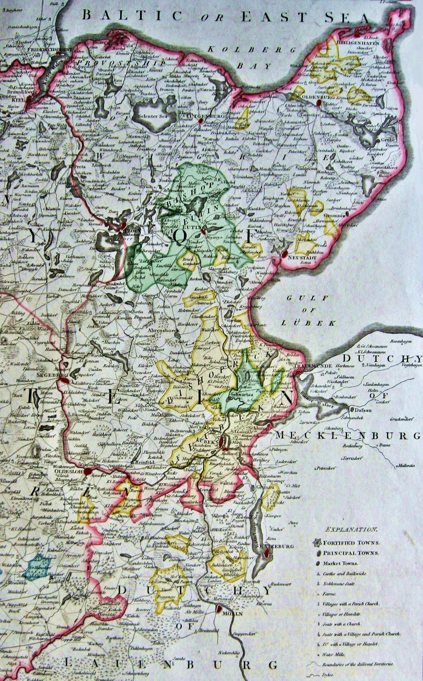 The eastern part of the Duchy of Holstein showing the scattered territories of the Prince-Bishopric of Lübeck (in yellow). The Prince-Bishopric of Eutin (in green) was a partition of Lübeck which had resulted from a succession dispute between the ruling houses of Holstein-Gottorp and Denmark early in the 18th century. The bishopric had been secularized during the Reformation and was ruled since then by members of the Protestant Holstein-Gottorp dynasty. The city of Lübeck proper was a free imperial city. Cropped from a map of the Duchy of Holstein by British cartographer William Faden published in London in 1804. Faden was renowned for his attention to detail.